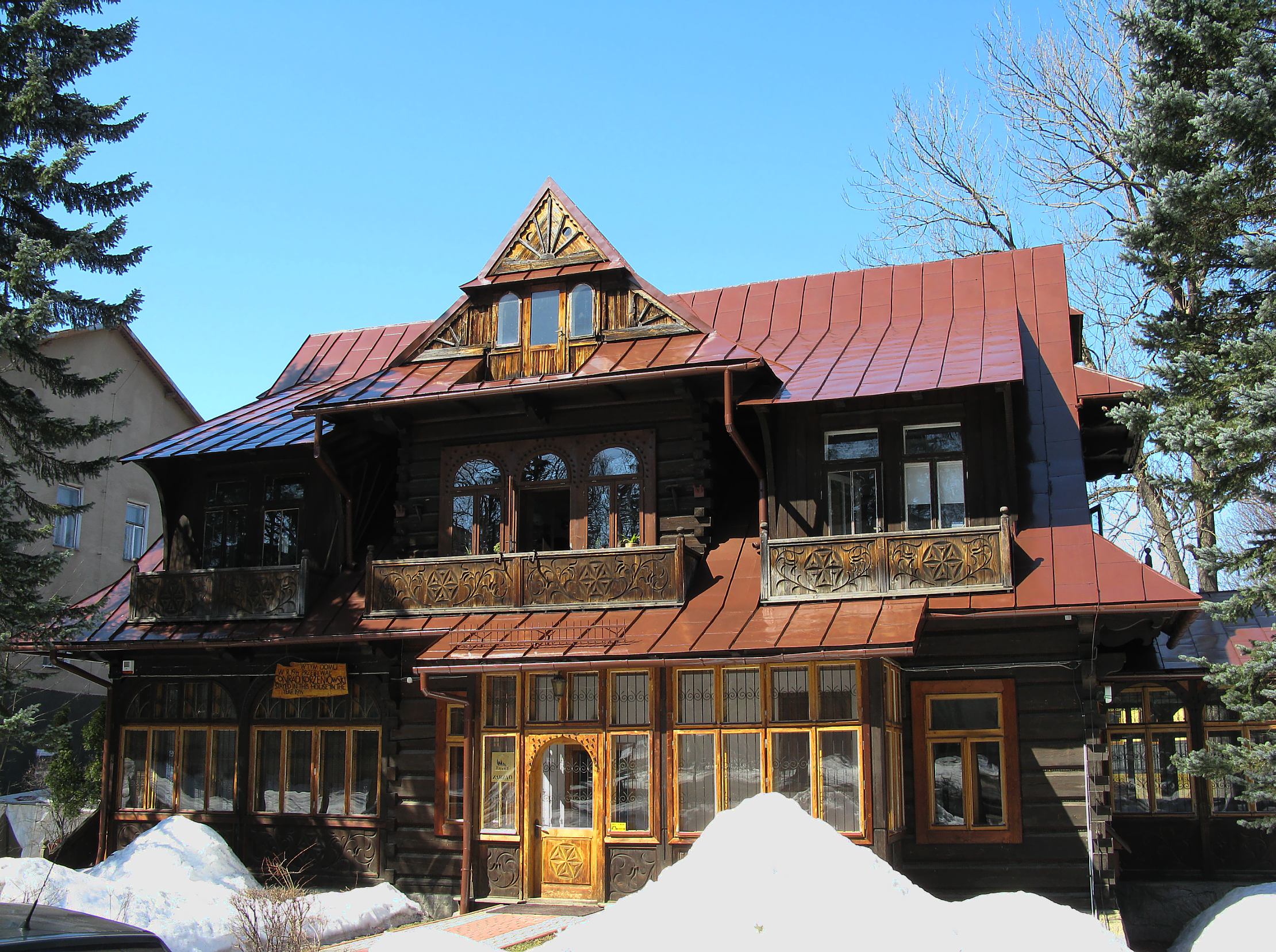 Villa Konstantynówka in Zakopane, place of stay of Joseph Conrad in 1914